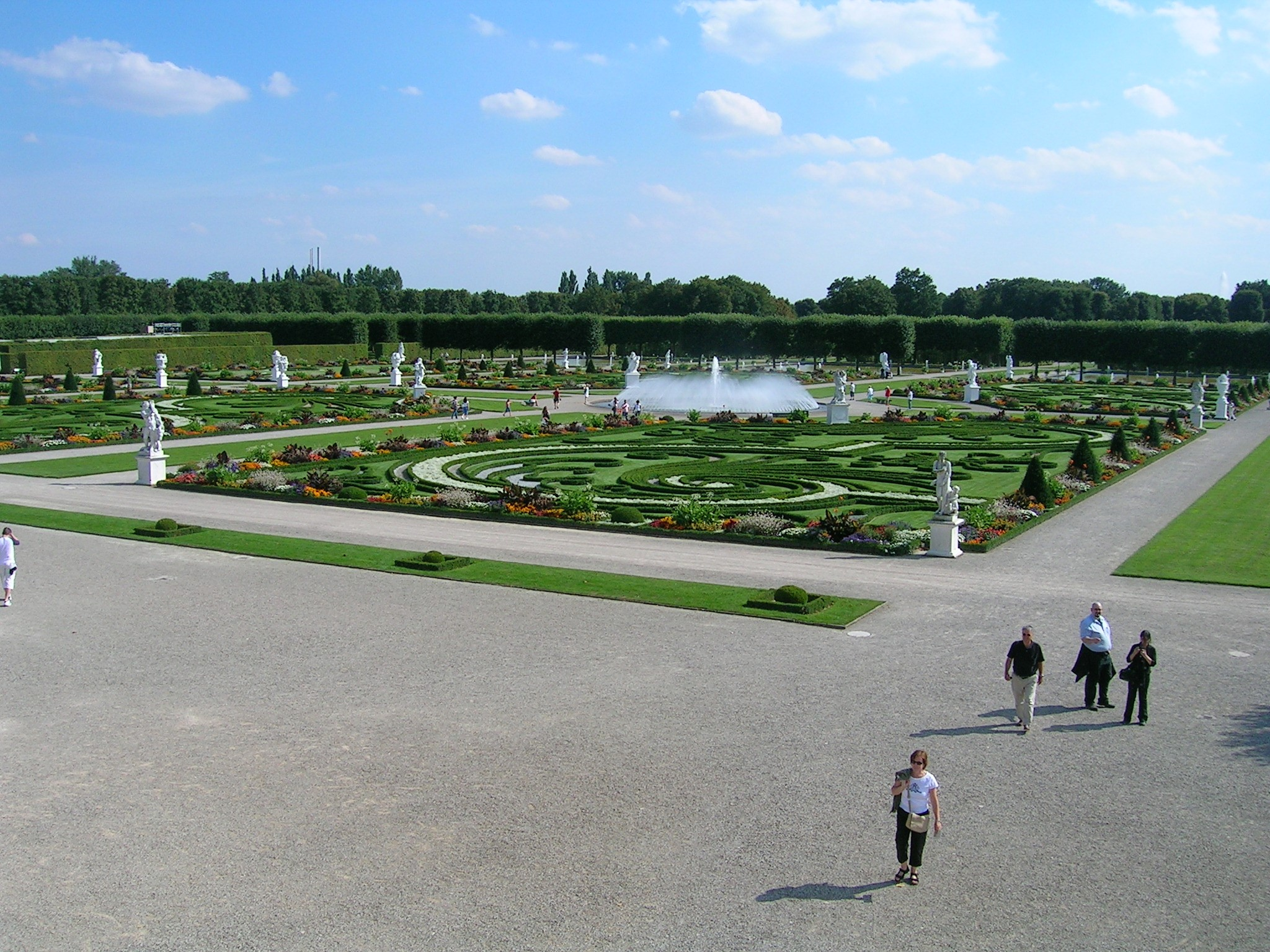 View of the Great Garden in Hannover, Germany. The Great Garden is part of Herrenhausen Gardens and was built in the 17th century.